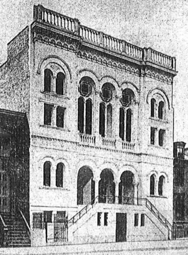 Picture of Synagogue of Beth Jacob Anshe Sholom, 274 South Third Street, Brooklyn, New York